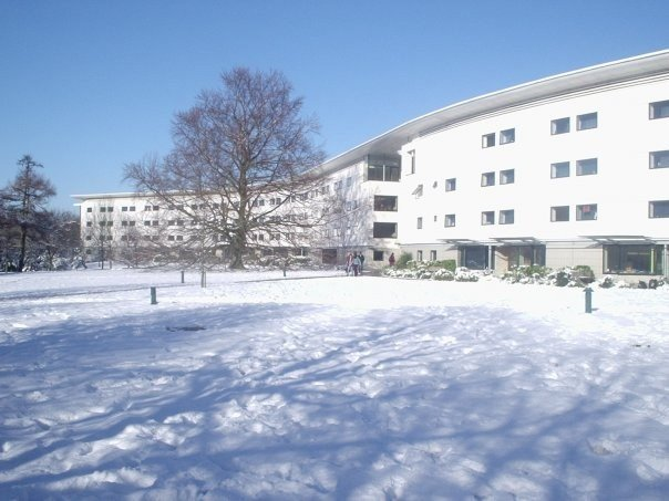 Constable Terrance, University of East Anglia